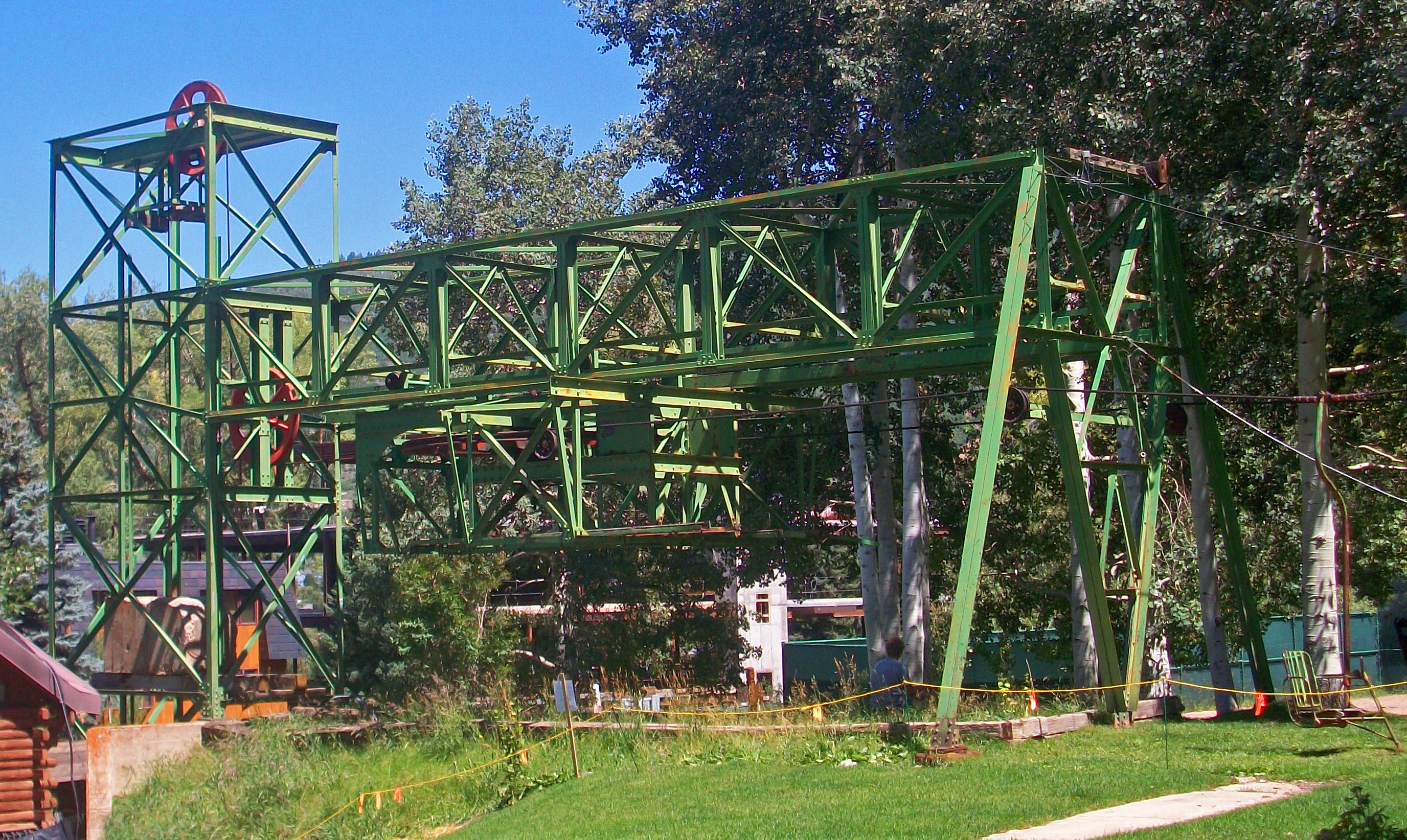 Original Ski Lift No. 1, on the site of the original "Boat Tow" lift in Aspen, CO, USA. No longer in use, it was one of the longest ski lifts in the world when it opened in the late 1940s, and one of three remaining single-chair chairlifts in the US.